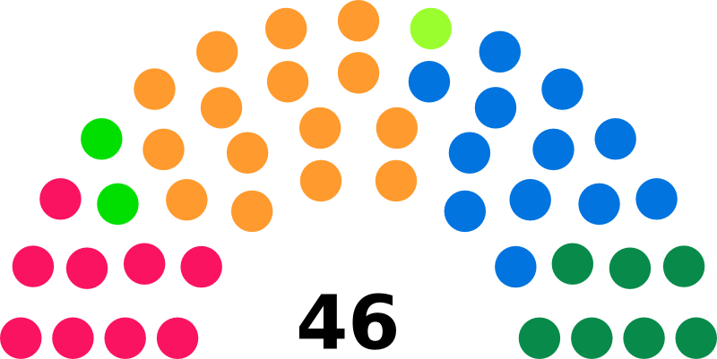 Seats diagramme of Swiss Council of States (2007)